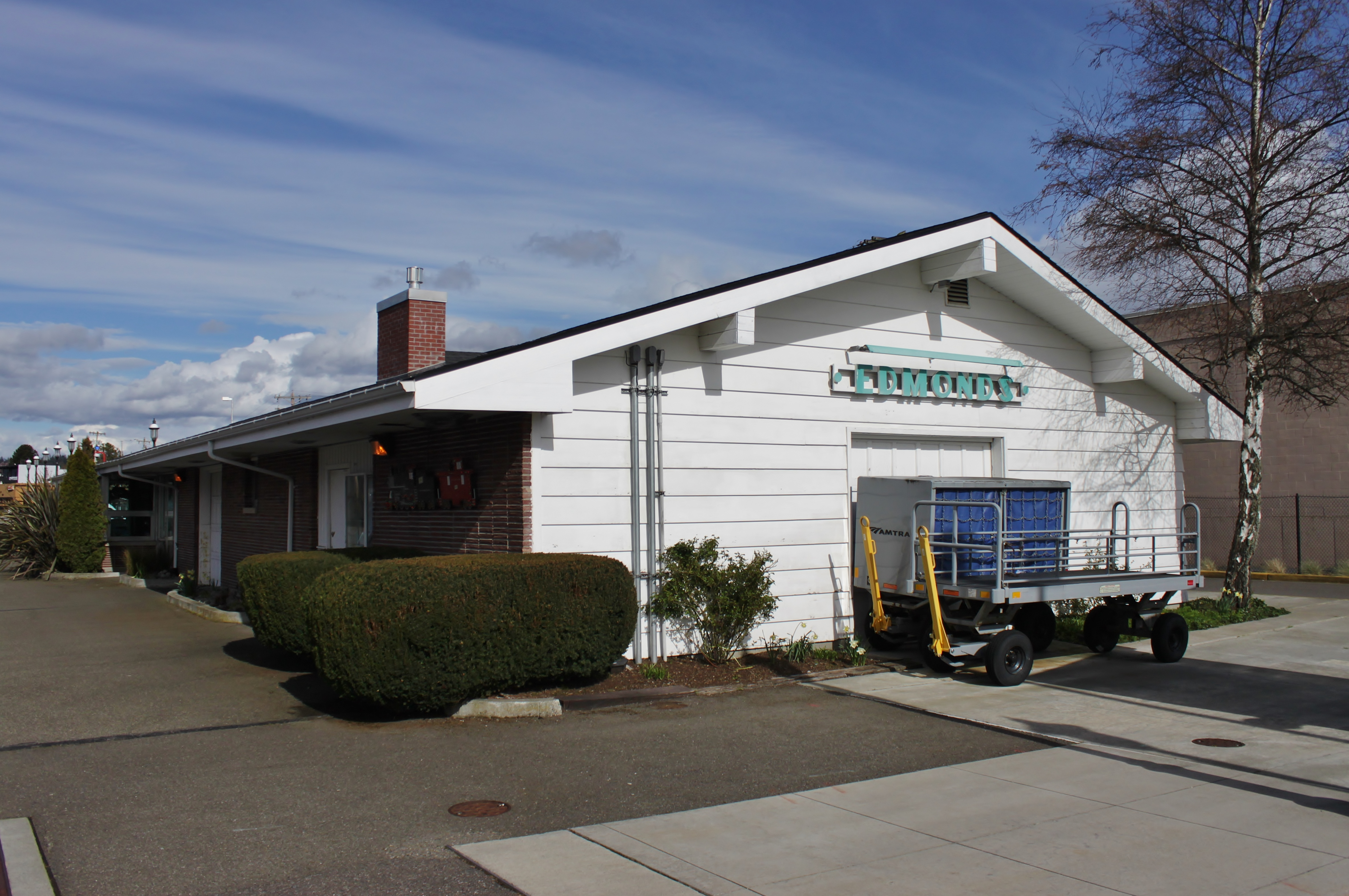 The waiting room of Edmonds station, served by Amtrak and Sounder commuter rail, seen from the south.